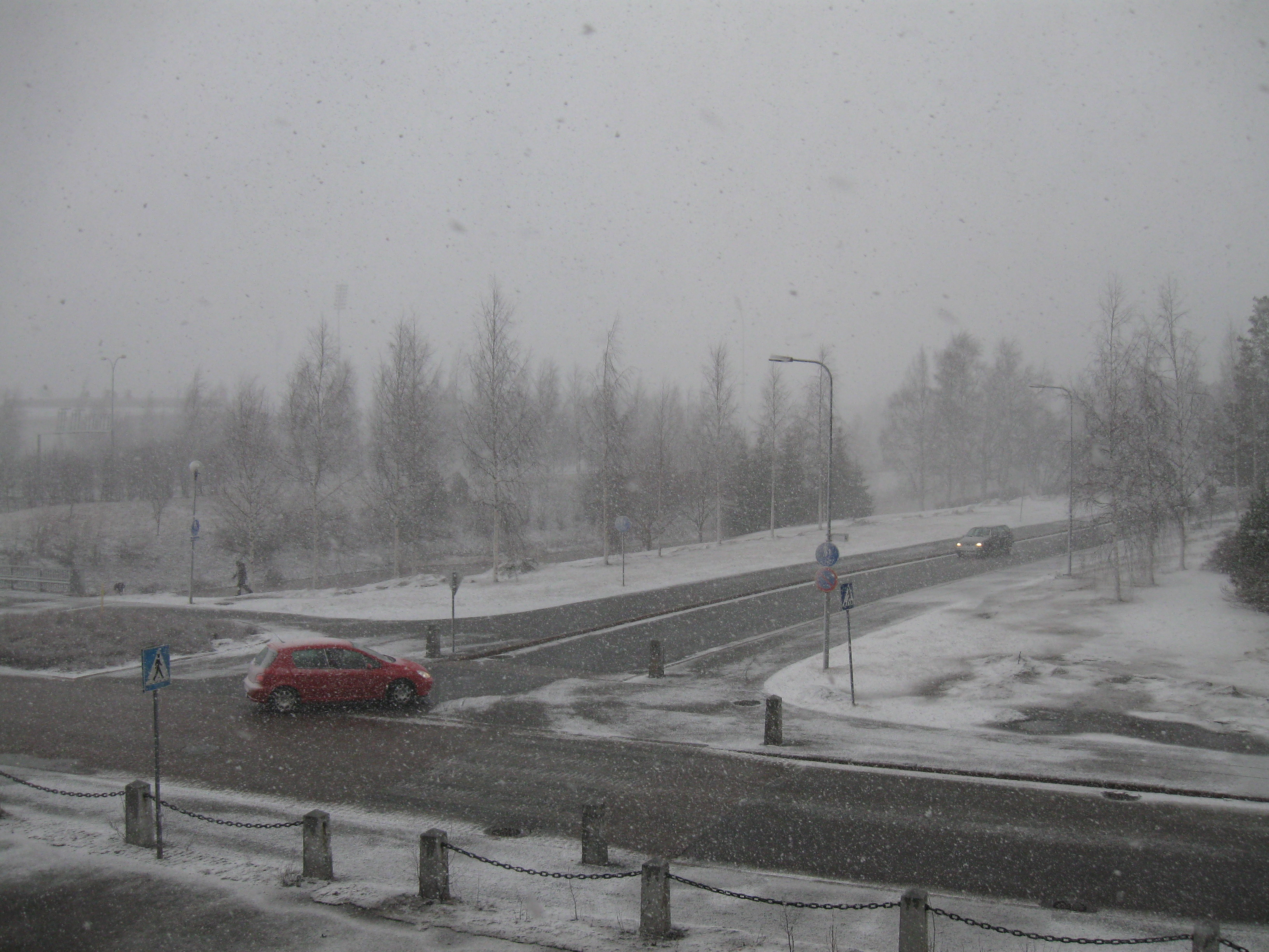 A sudden snowfall in Karjasilta, Oulu, Finland in late April 2009.